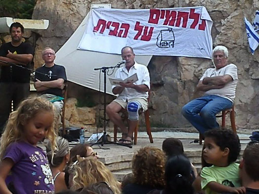 David Grossman, Meir Shalev and Yossi Abulafia at the real estate protest in Gan Hasus, Jerusalem, 31.7.2011